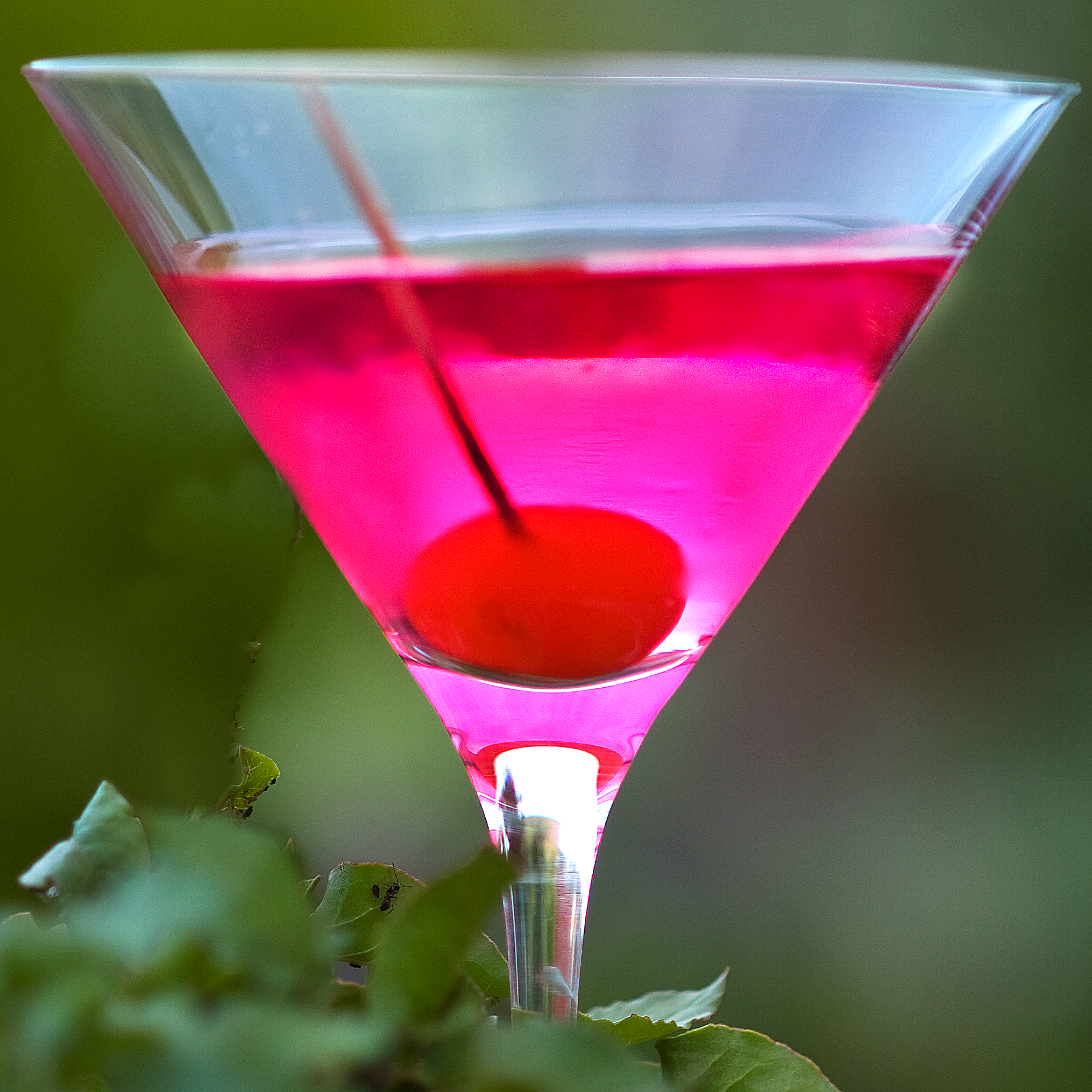 For the recipe